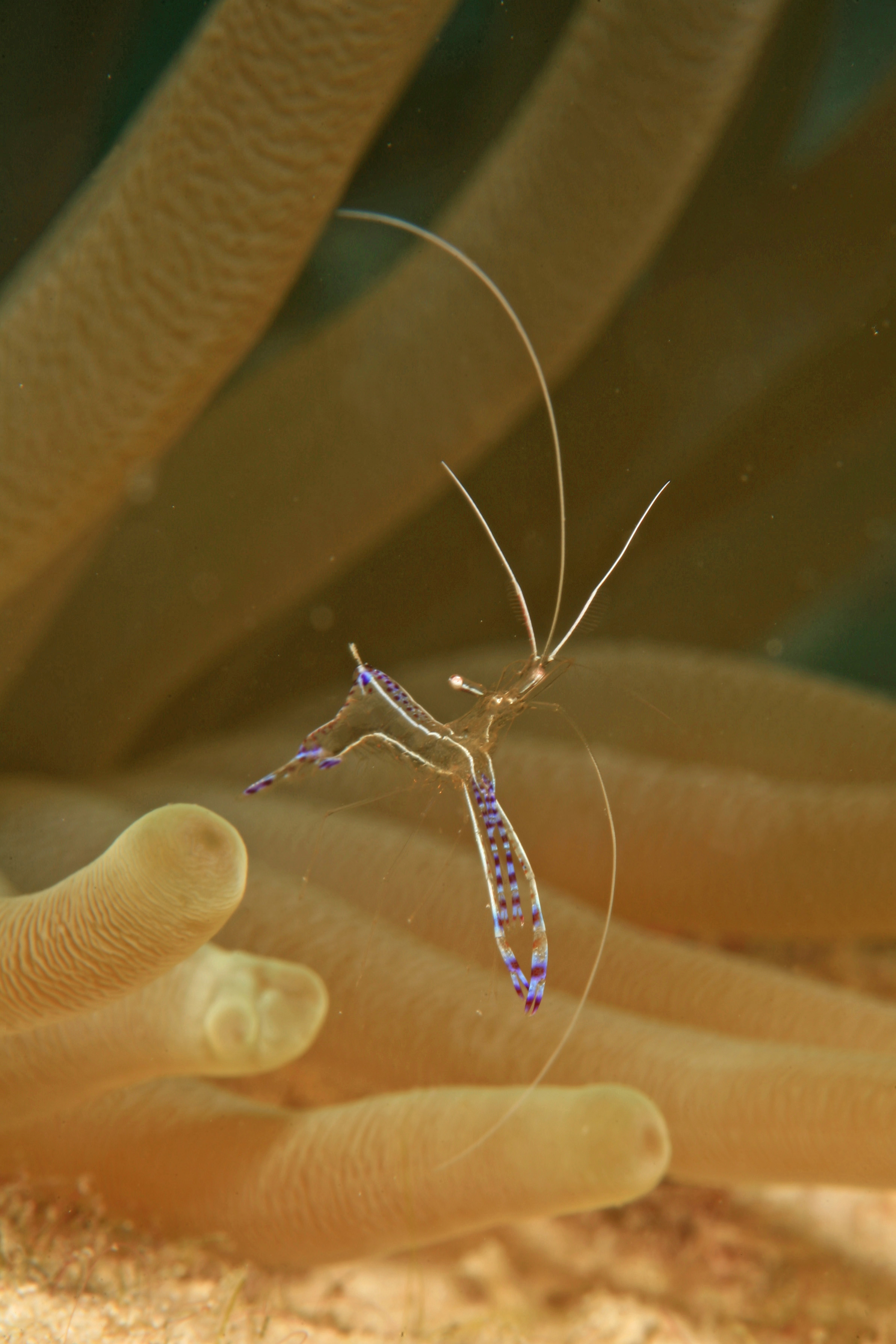 It pays to advertise... The Pederson Cleaner Shrimp (Periclimenes pedersoni) flicks its long, hair-like antennae to solicit customers. If a fish approaches, the shrimp will climb aboard and clean particles and unwanted organisms from the fish's body. Click here to see it LARGER. This shrimp takes shelter in the arms of a Giant Caribbean Anemone (Condylactis gigantea). Shot on the sandy edges of a coral reef in Curaçao, Netherland Antilles.